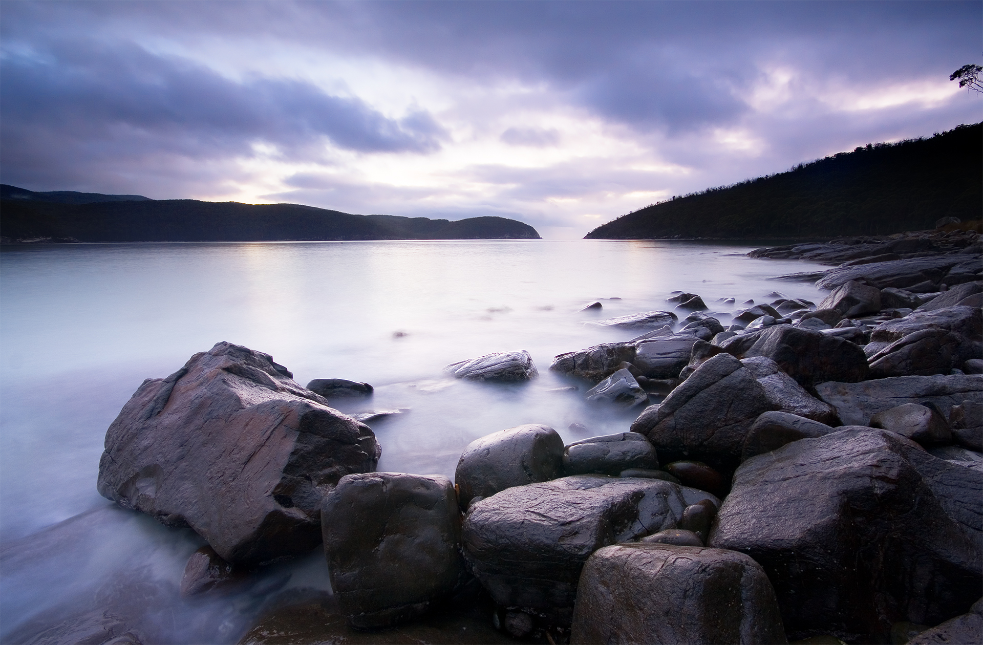 Fortesque Bay, Sunrise, Tasman Peninsula, Tasmania, Australia.